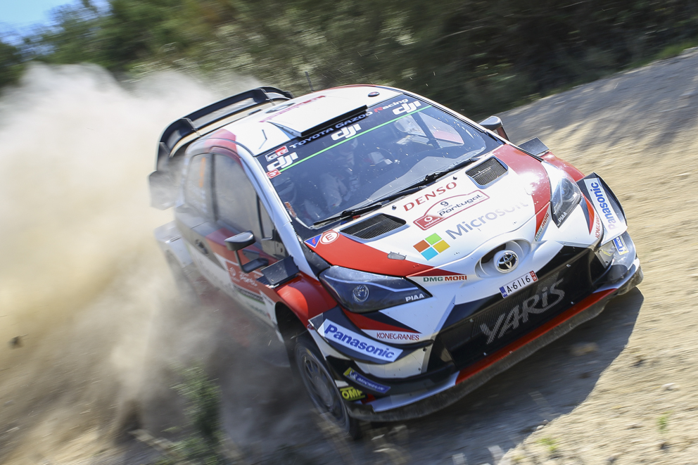 Stage of Cabeceiras de Basto